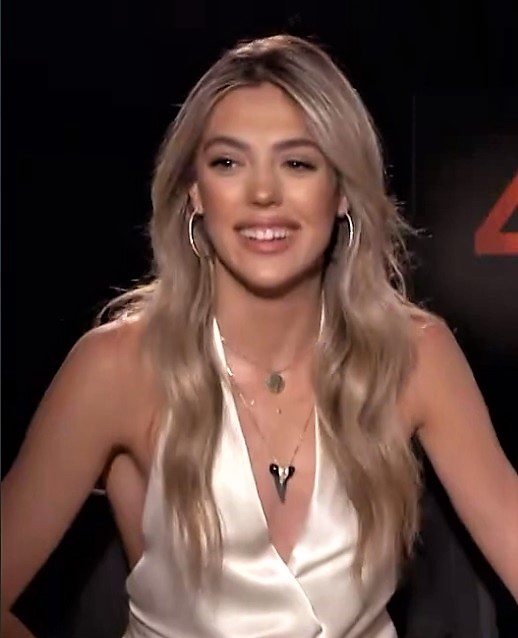 Actress Sistine Stallone interviewed about her film "47 Meters Down: Uncaged" by Dulce Osuna 🦈 Sistine Stallone & Corinne Foxx talk the advice they didn't take from their famous dads by Dulce Osuna